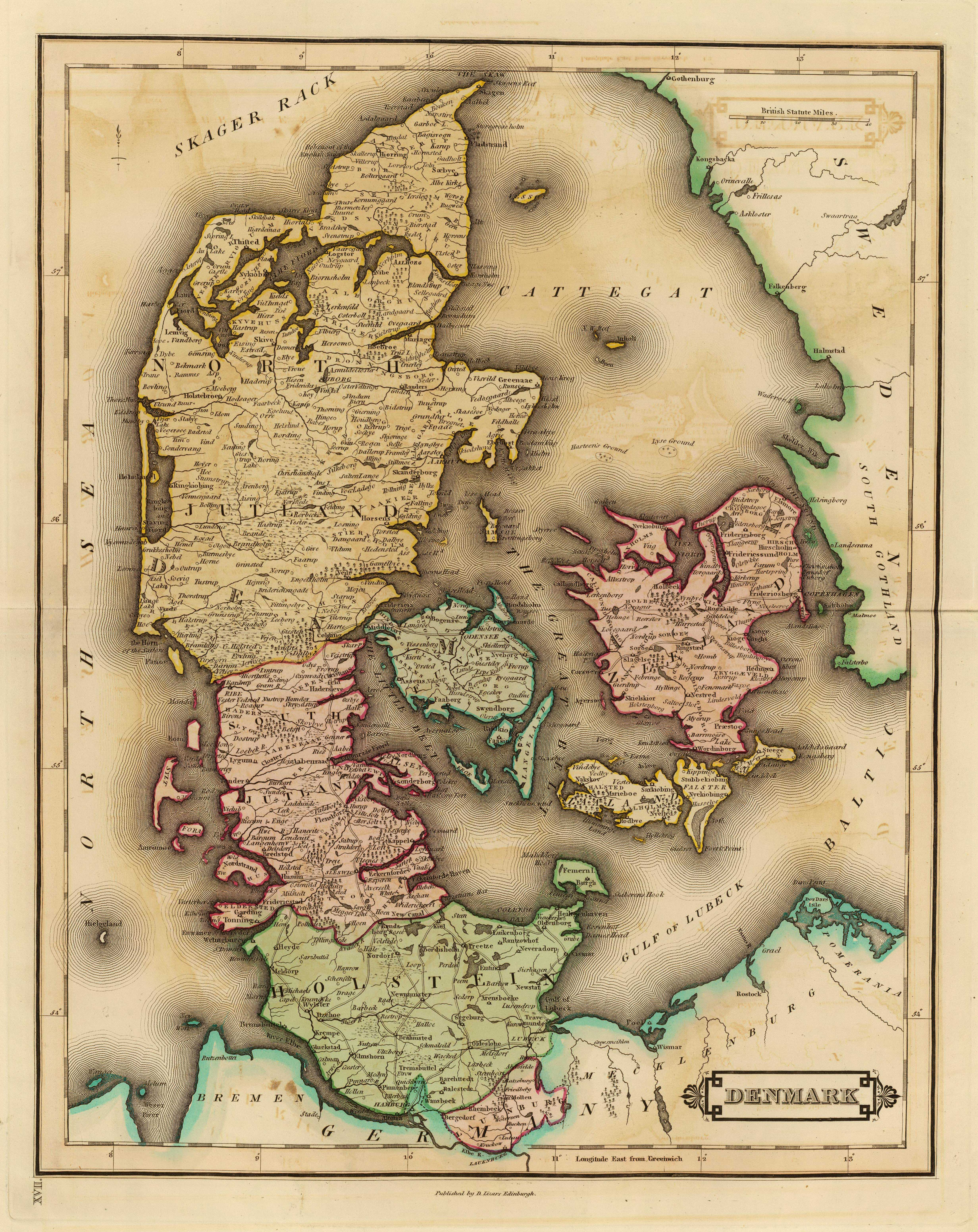 Denmark 1831